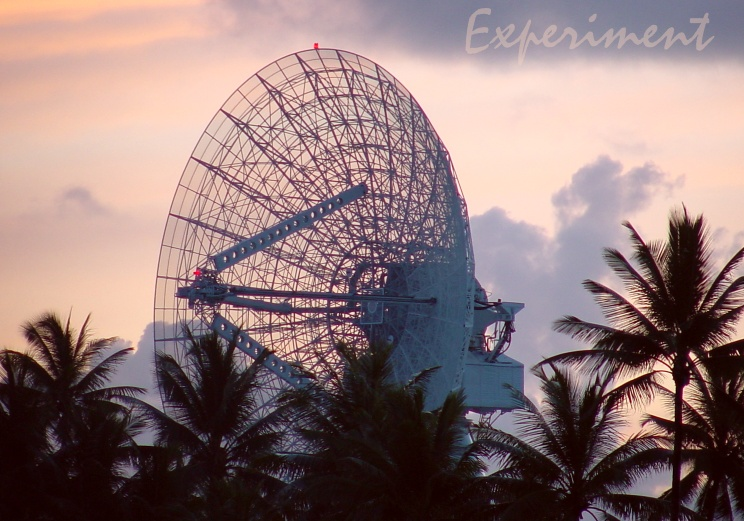 Tracking RADar EXperiment